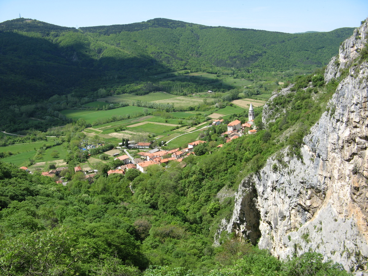 Osp